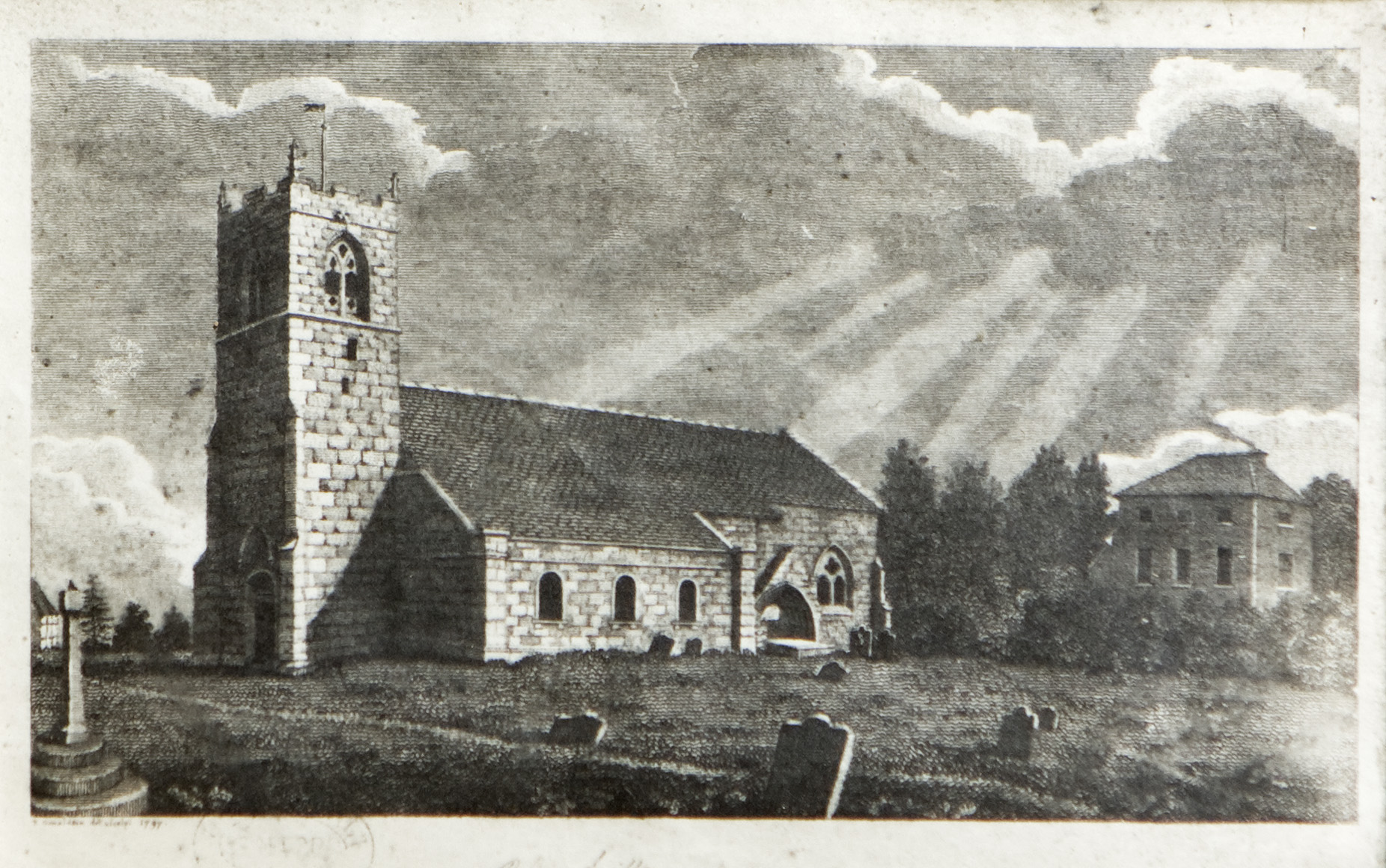 Photograph of a print in the vestry of St Mary's Church, Blymhill, Staffordshire, England. The image is dated 1797.